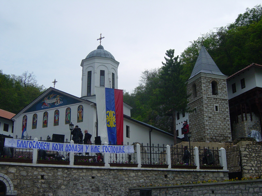 The Holy Trinity Serbian Orthodox Christian Monastery in Pljevlja, Montenegro. The banner reads Благословен који долази у име Господње which in English translates to Blessed is the one who comes in God's name.